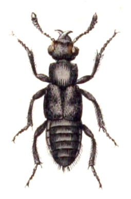 Creophilus maxillosus, from Calwer's Käferbuch, Table 11, Picture 25. Taxonomy was updated to 2008, using mostly the sites Fauna Europaea and BioLib. Please contact Sarefo if the determination is wrong!